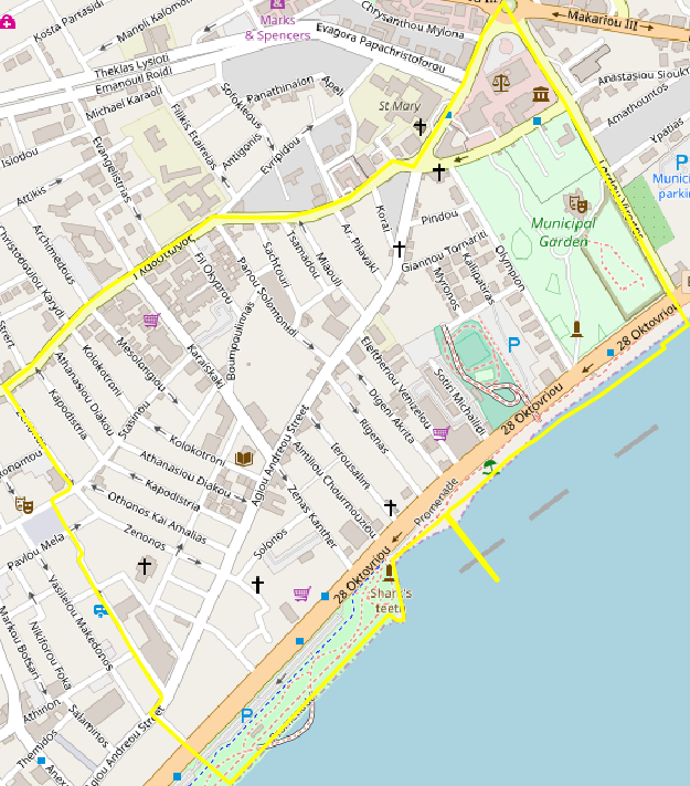 Map of Agia Trias.